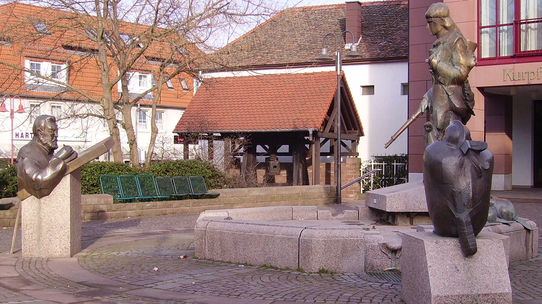 fountain in Edenkoben in Rhineland-Palatinate, Germany